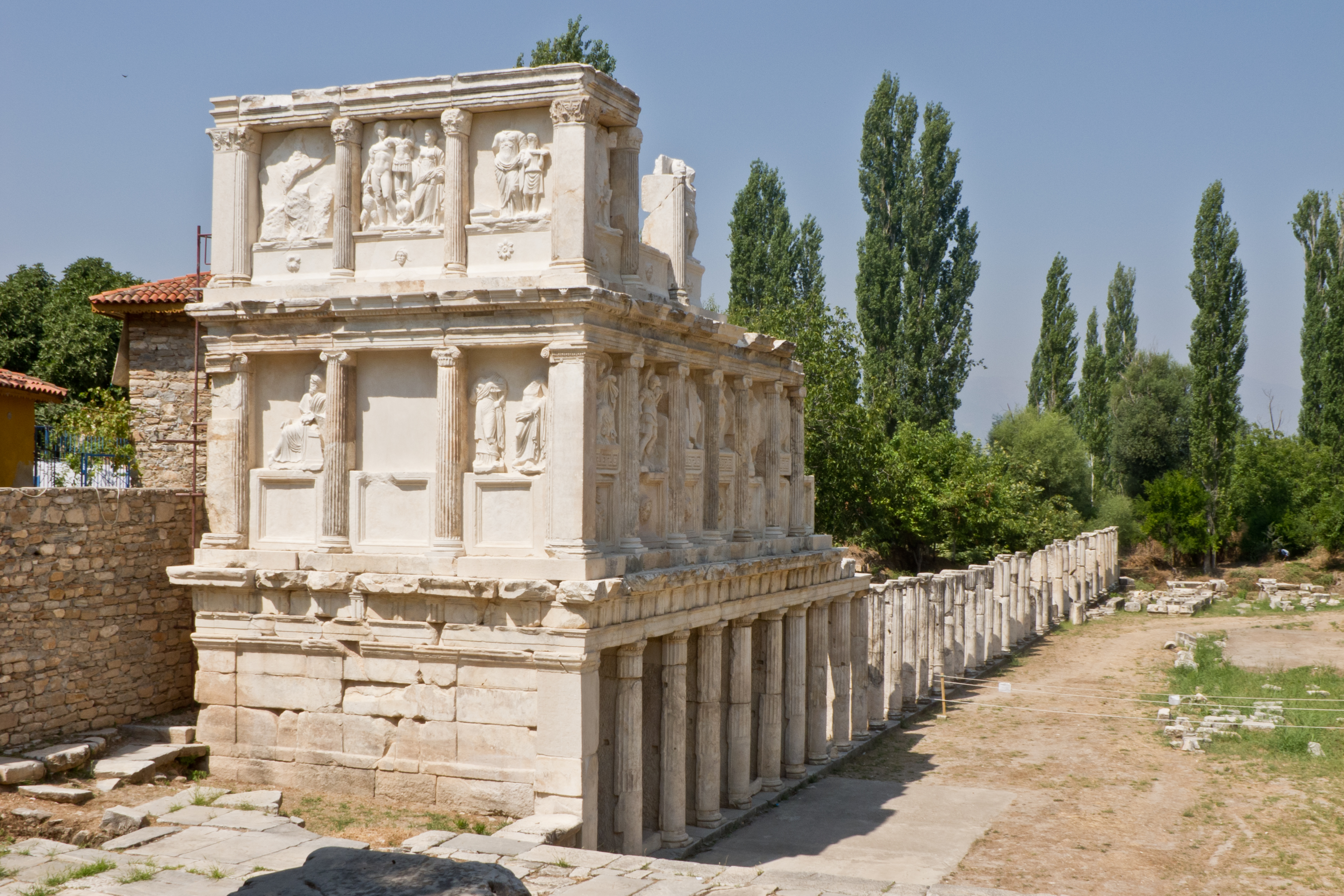 Sebasteion in Aphrodisias, in modern-day Turkey.